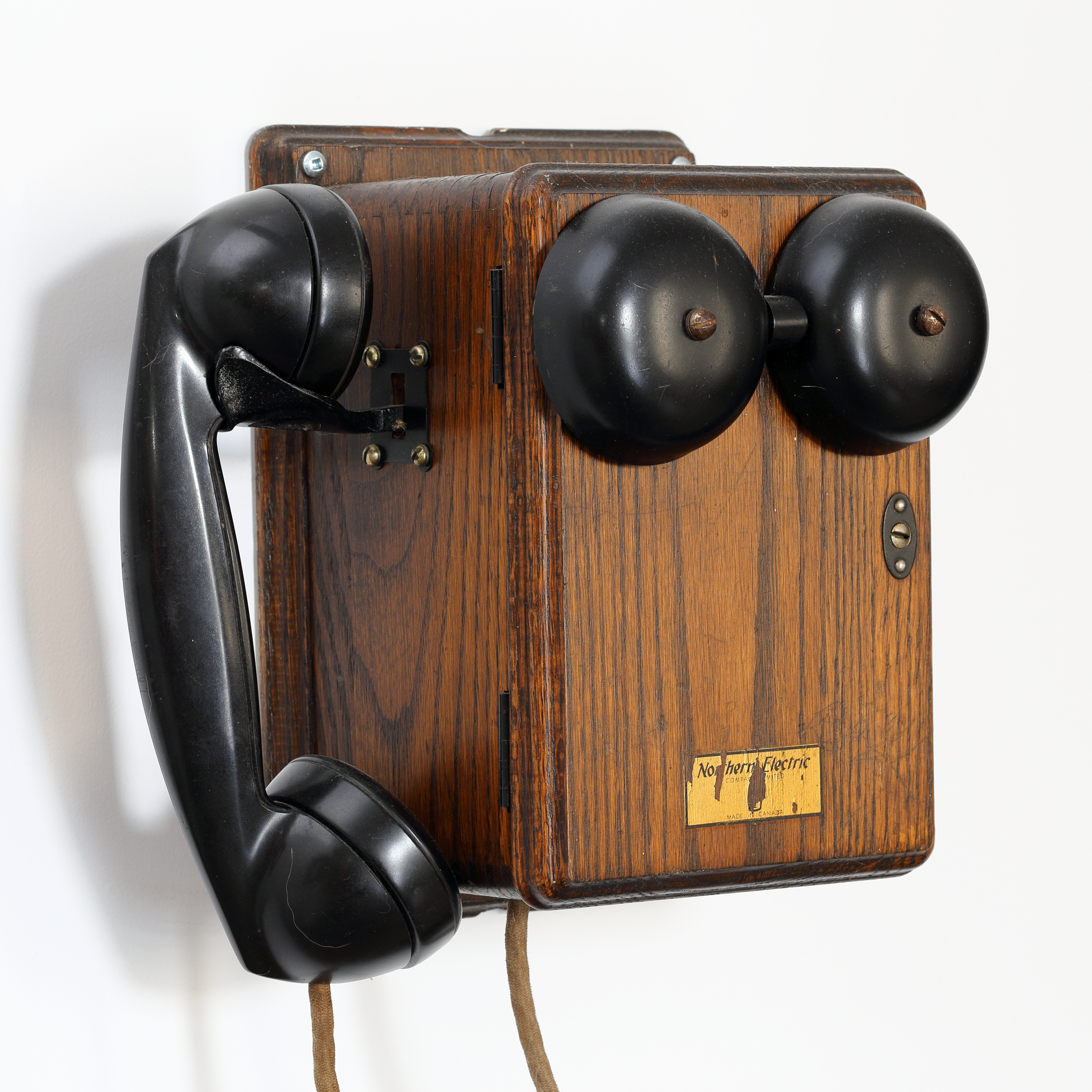 Northern Electric telephone, model number N415H, circa 1950 (probably)